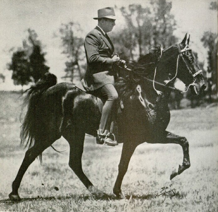 Tennessee Walking Horse foundation stallion Merry Go Boy under saddle at the 1947 Tennessee Walking Horse National Celebration.